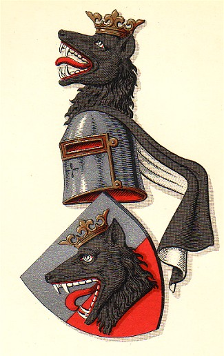 Coat of arms of the Buchwald(t) family